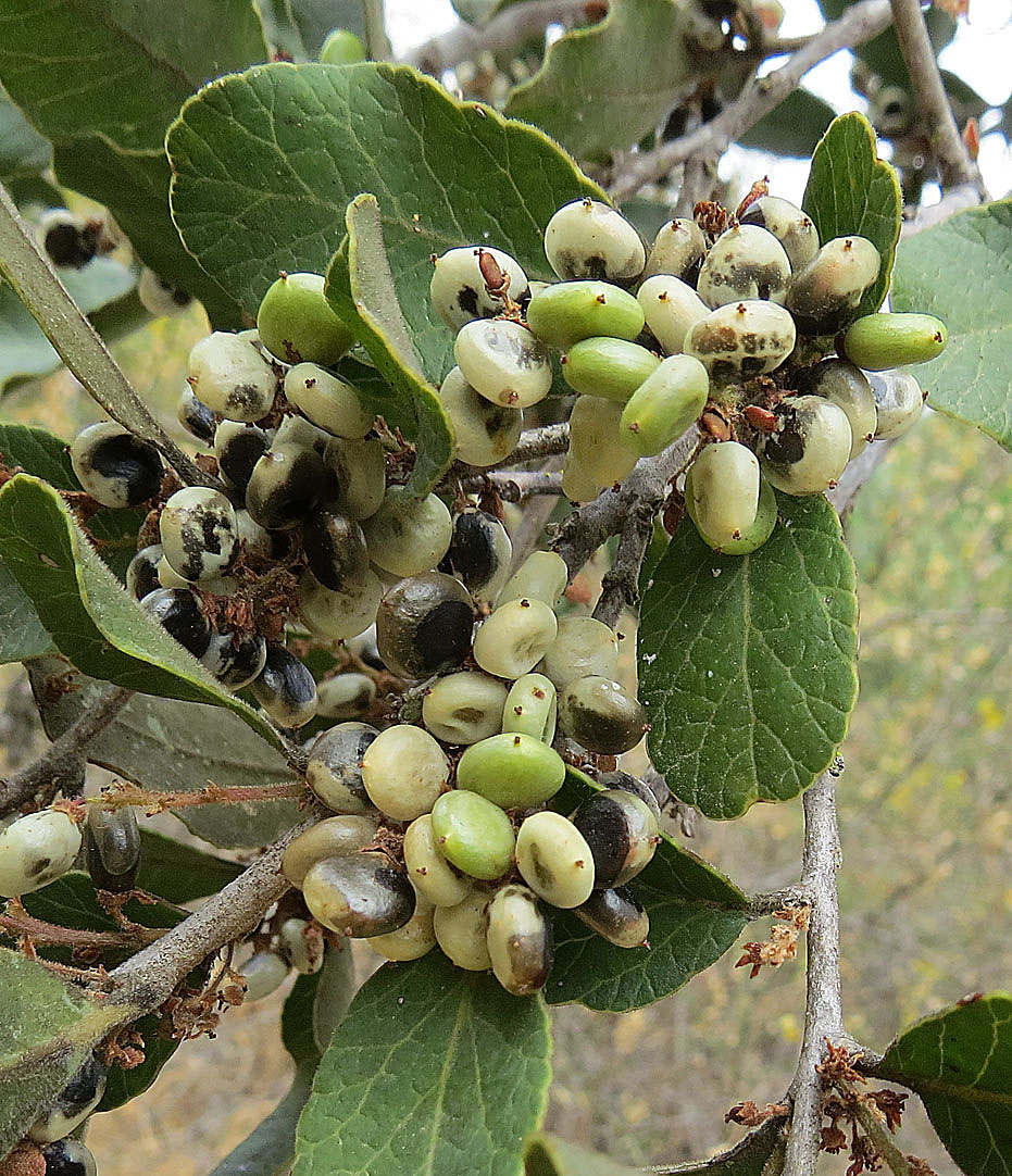 Fruit of the Litre tree. This species is one of the major constituents of what is left of the native forests of central Chile, but it can cause a rash on some people.